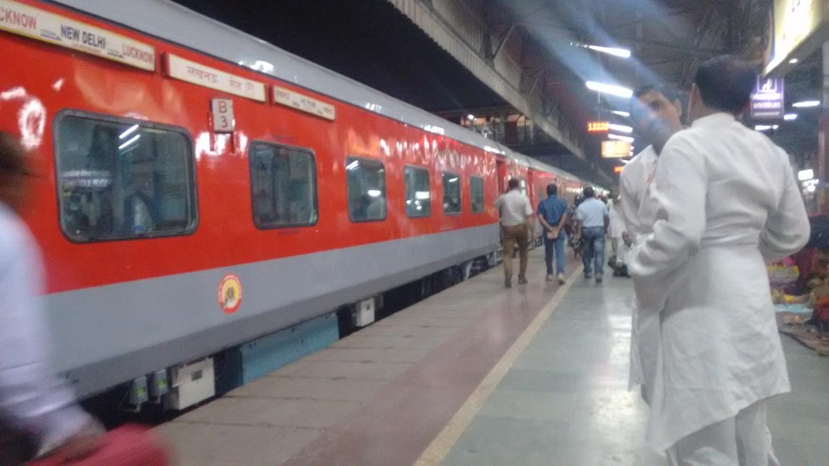 Beand new coach of VIP Lucknow Mail on its first run with these advanced LHB Coaches